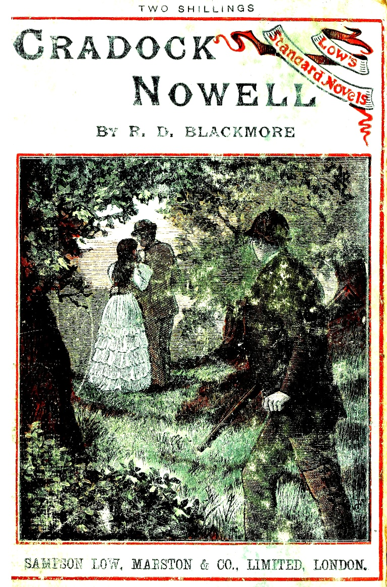 Cover of the novel Cradock Nowell by R. D. Blackmore. The novel was first published in 1866. This book cover is from the 1893 edition.